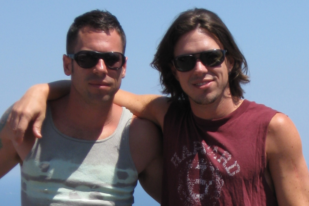 Actor Paul Dawson (right) with partner PJ DeBoy